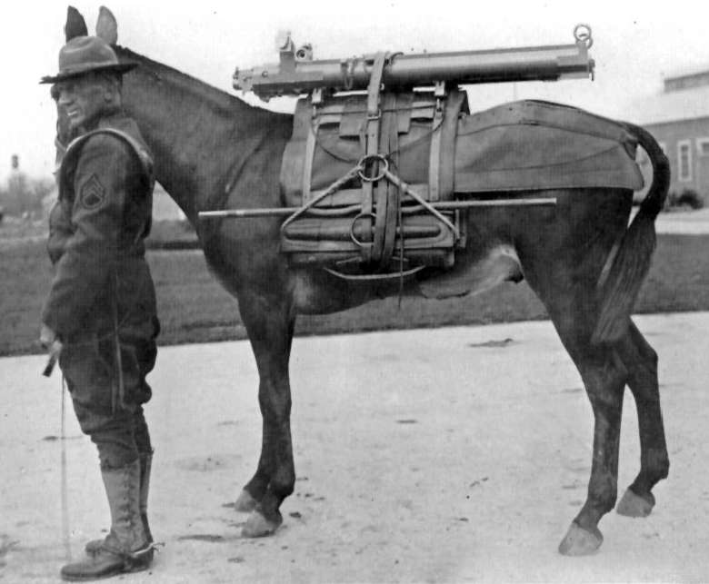 75mm pack howitzer M1920.